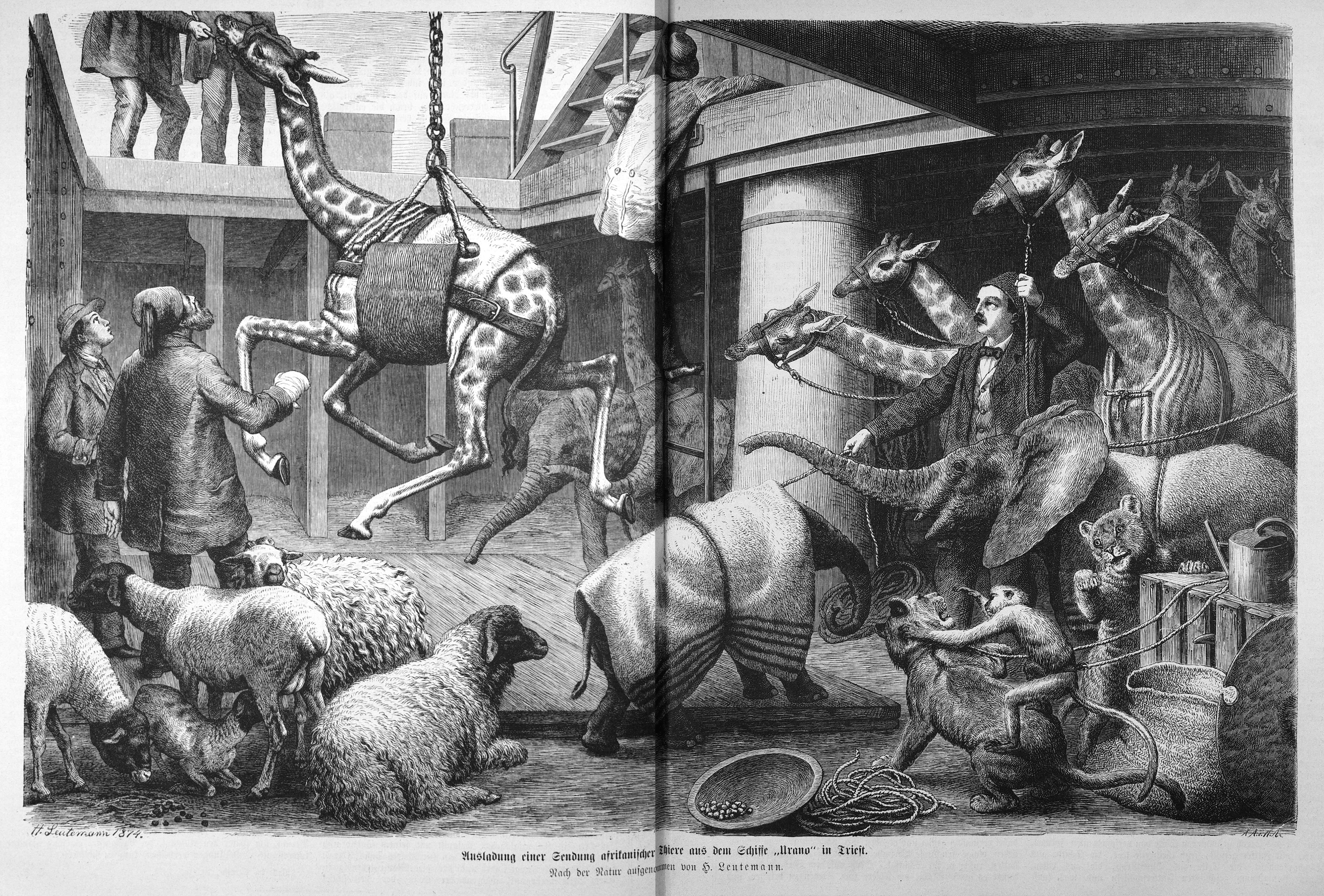 caption: "Ausladung einer Sendung afrikanischer Thiere aus dem Schiffe „Urano“ in Triest. Nach der Natur aufgenommen von H. Leutemann."